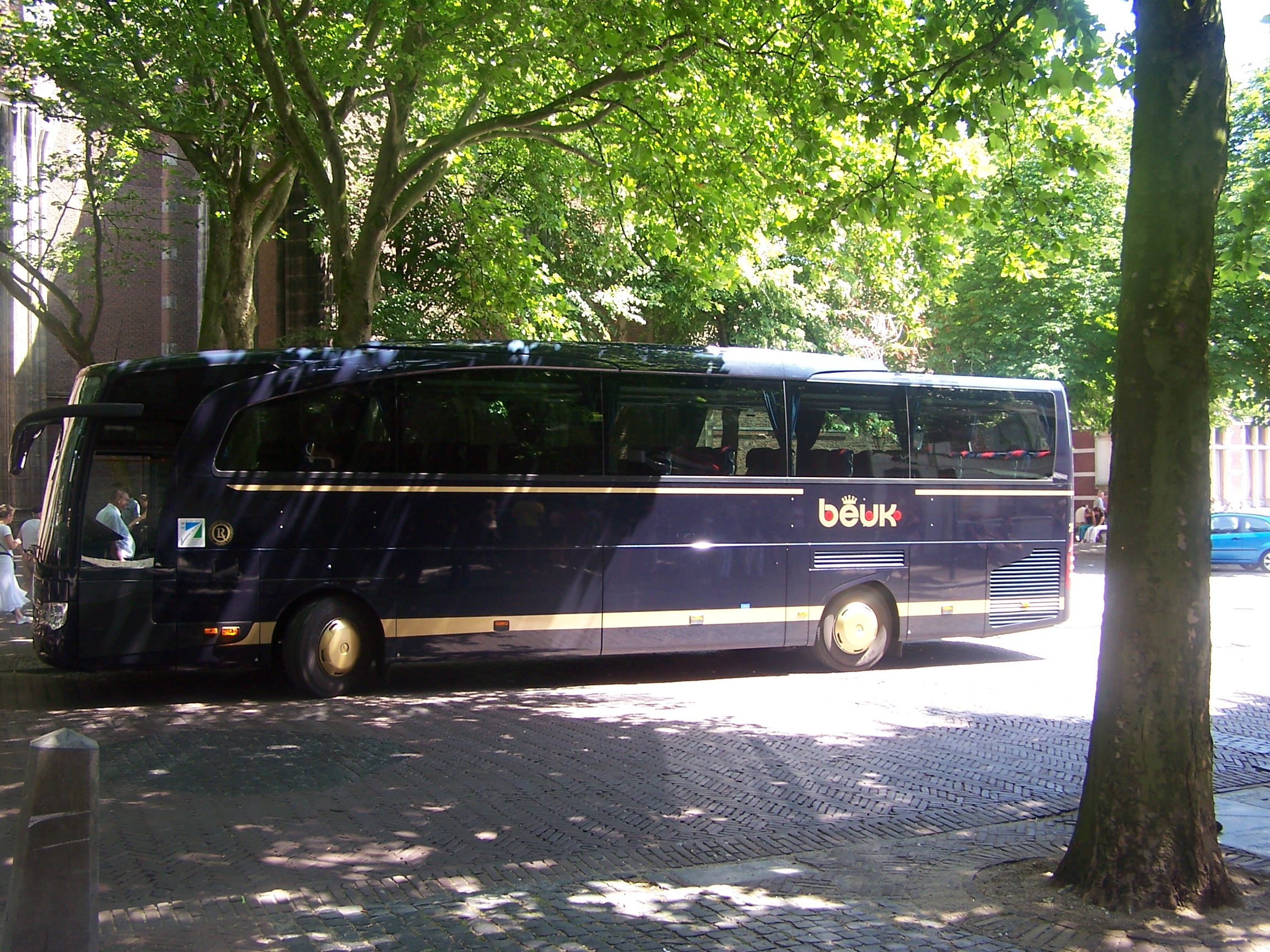 Picture of a Koninklijke Beuk Touringcar Bus. This image has the new Beuk-logo on the Bus.